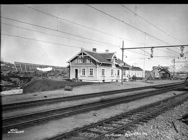 Bjørnfjell Station near the Swedish border on the Ofoten Line.